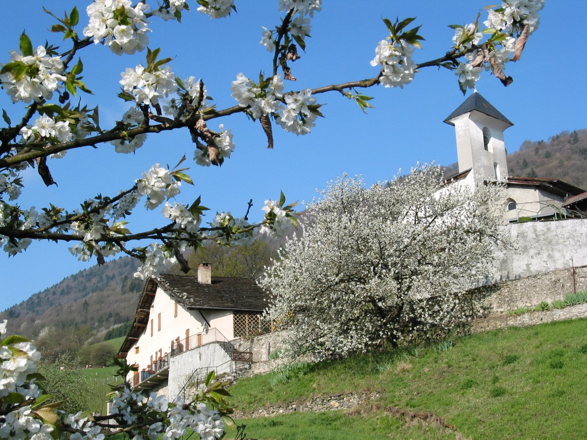 former home of significant and the village church